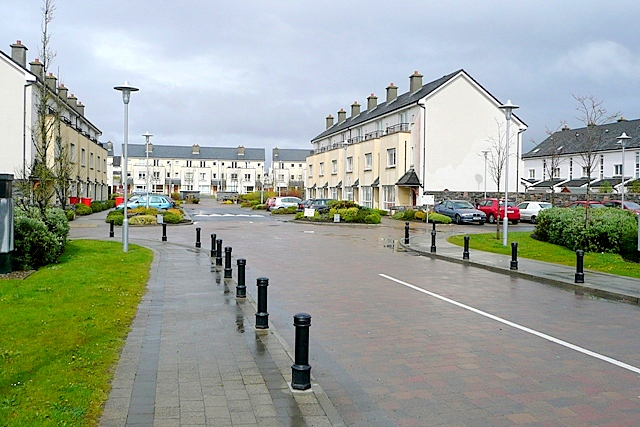 Bearna (Barna) An attractive estate of modern houses in this rapidly growing settlement to the west of Galway.